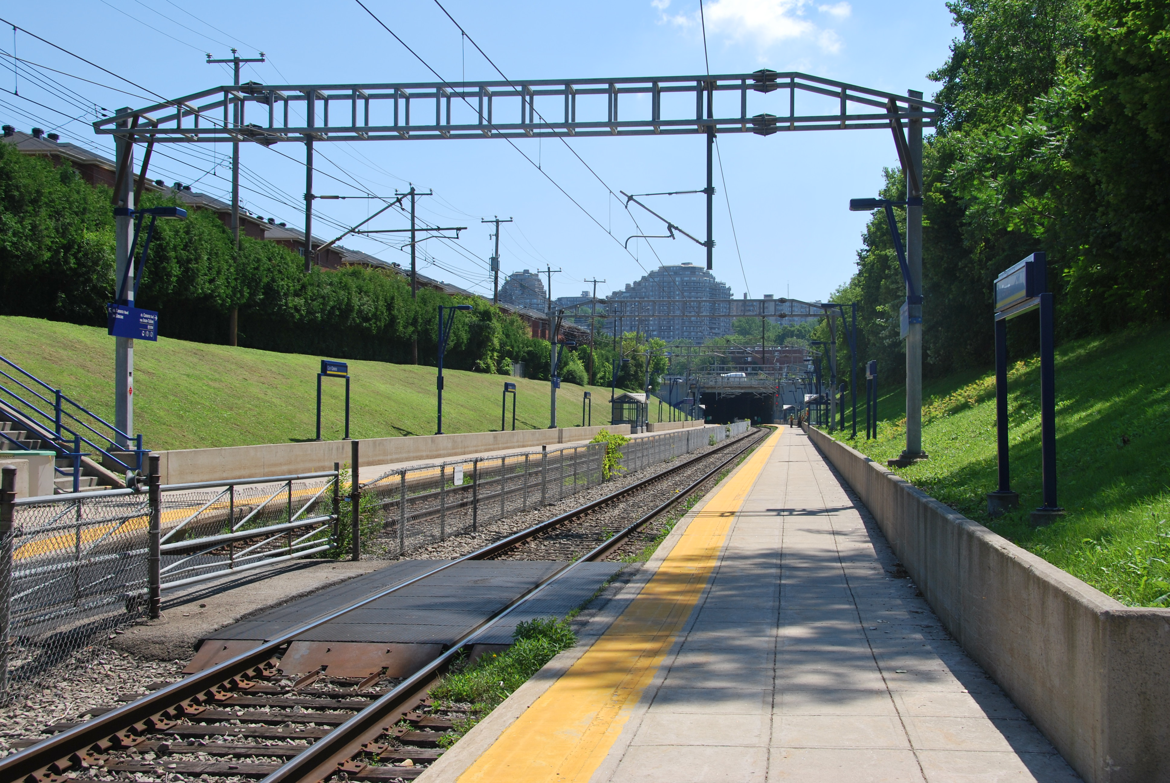 Canora AMT Station in Montreal, Canada.